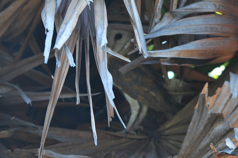 Barn Owl Tyto javanica stertens at Guindy National park